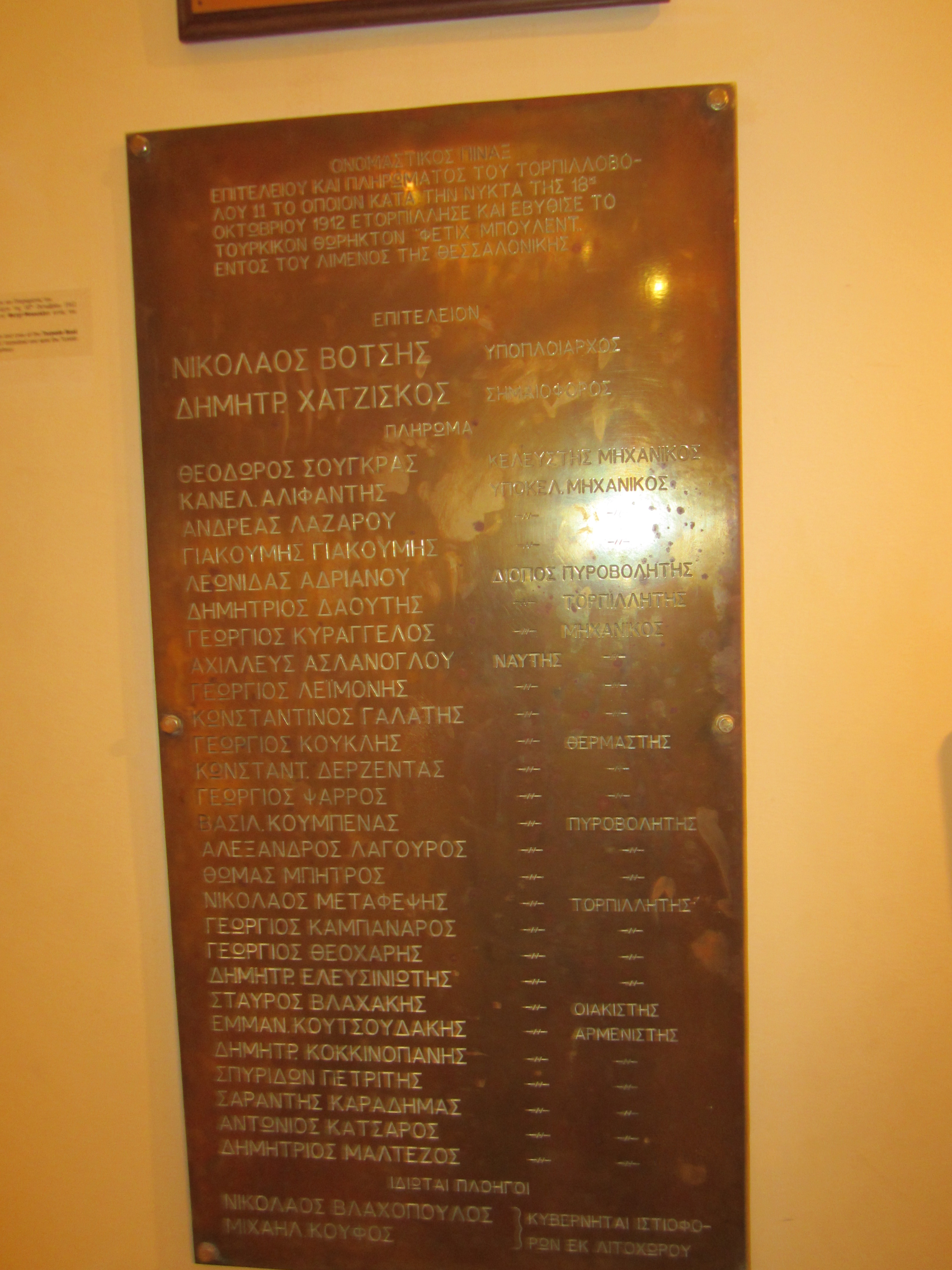 Torpedo boat No 11 Memorial plate - Crew list in the Historical museum of Hydra island, Greece